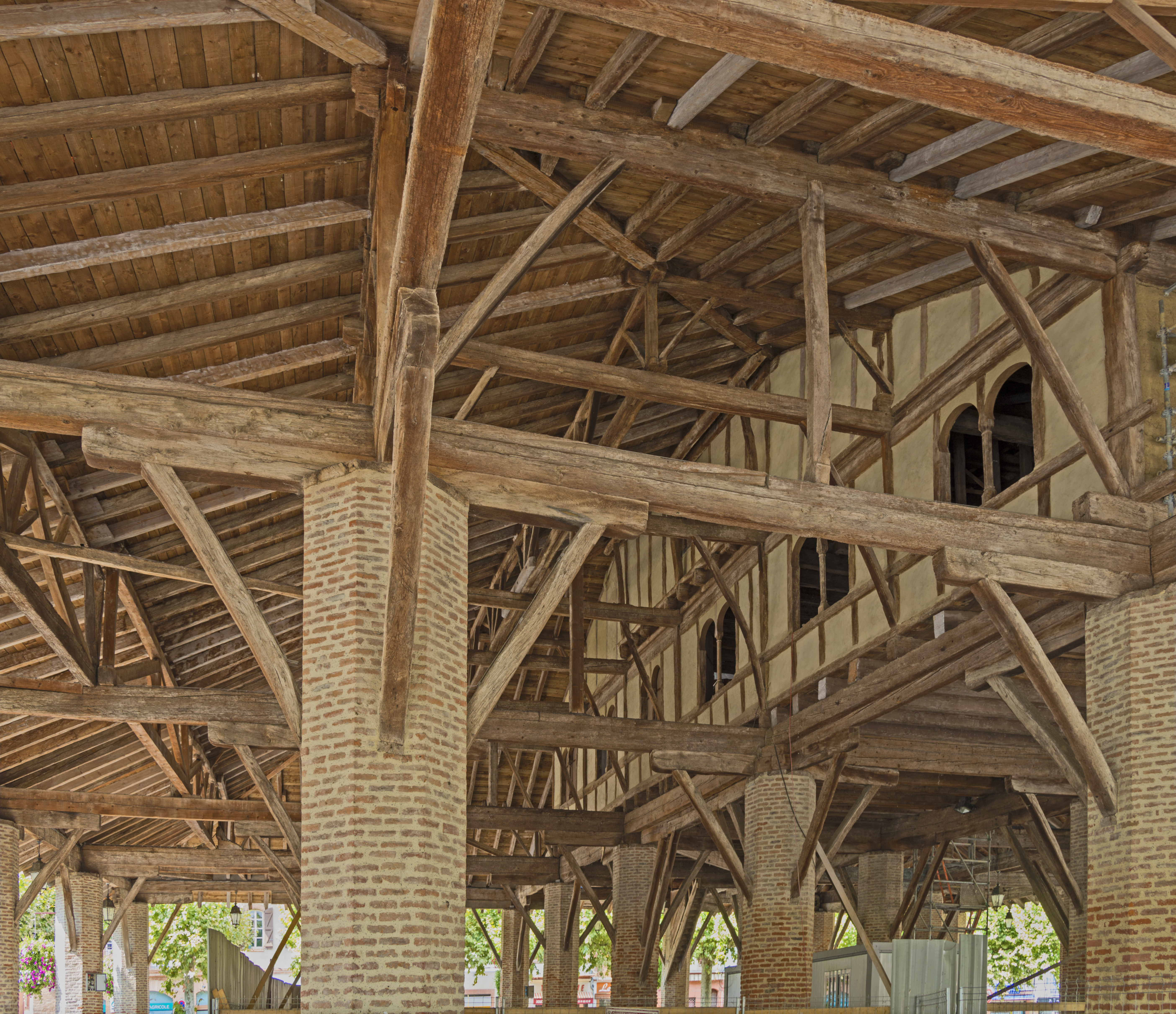 Grenade, Haute-Garonne, France. Framing of the Market Hall "Jean Moulin". XIV century.